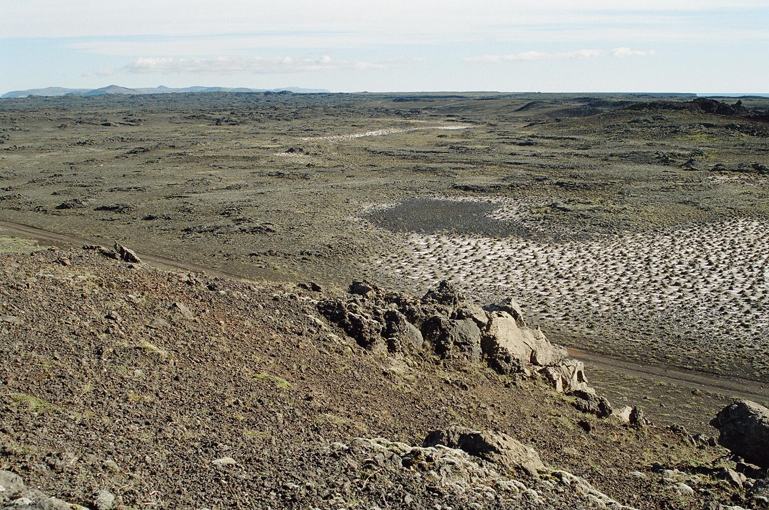 Salt in the desert of Reykjanes, Iceland, GNU-FDL I took the photo my-self in september 2004.